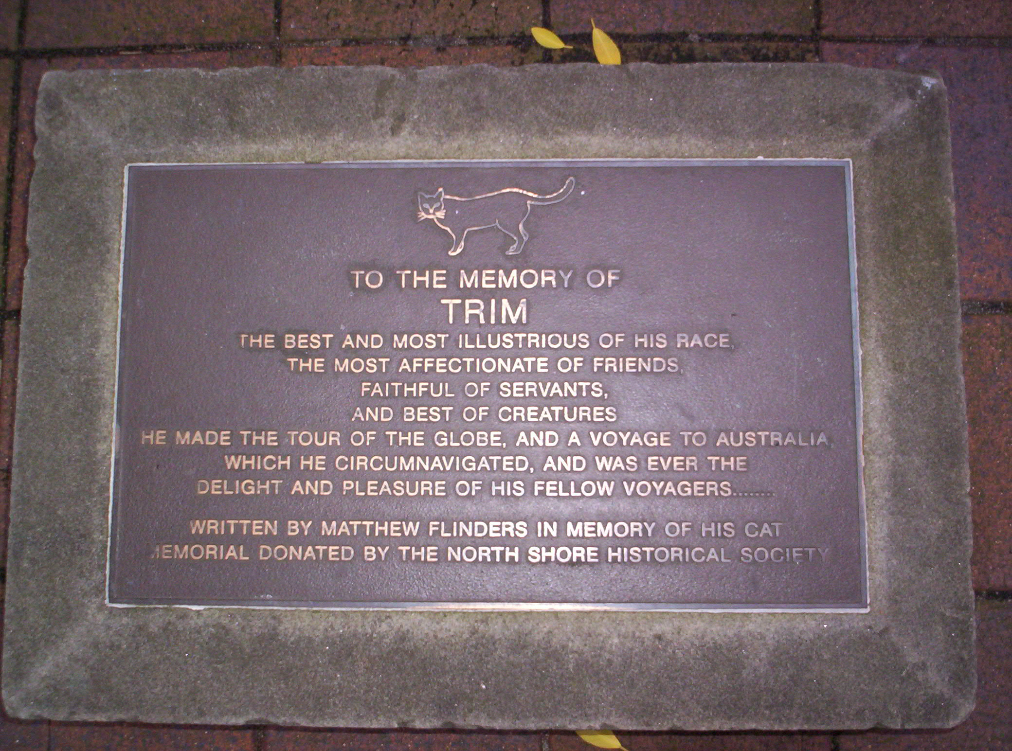 Plaque outside the State Library of New South Wales, dedicated to Matthew Flinders' cat Trim.